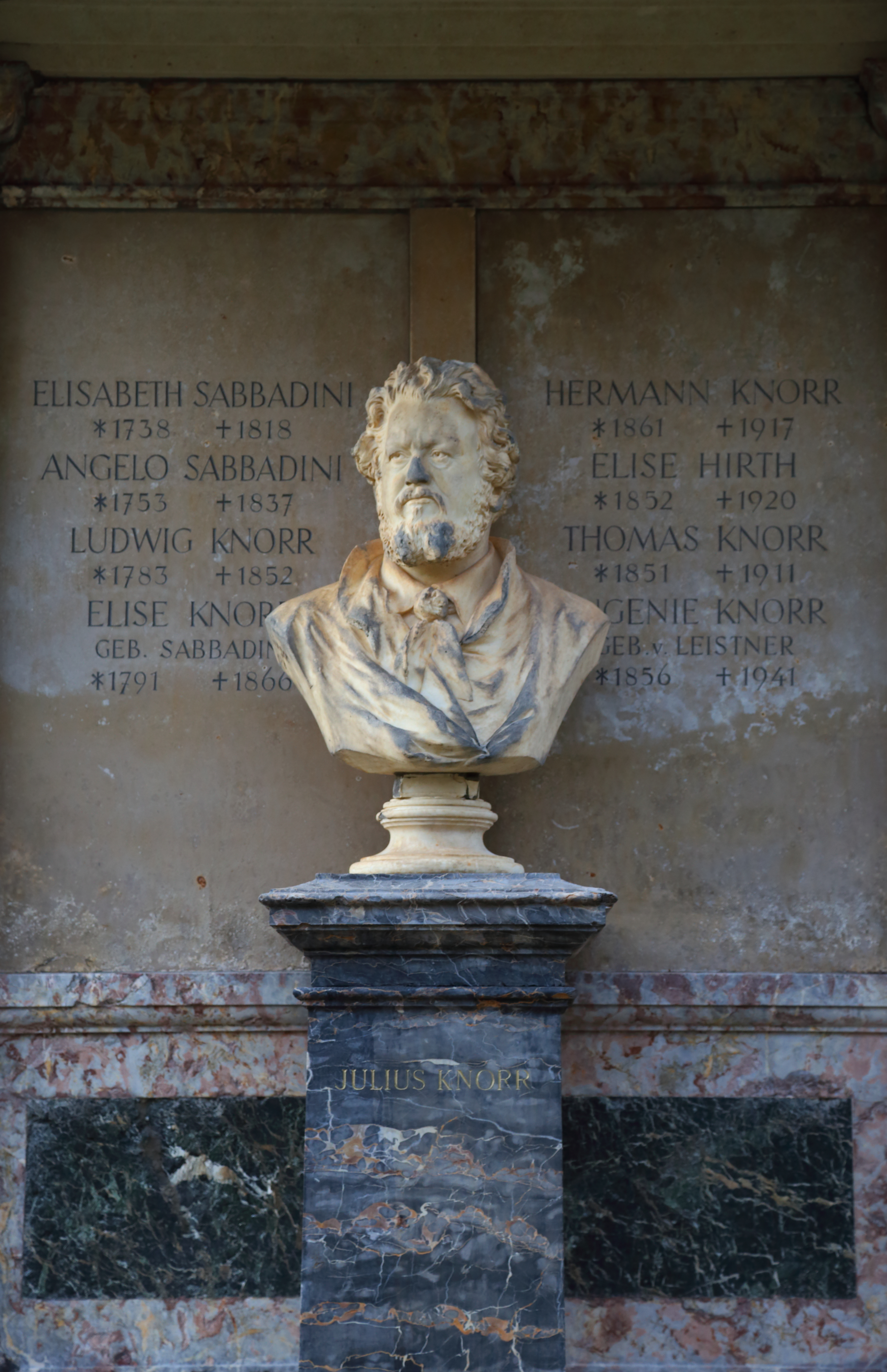 Knorr family grave in the Alter Südfriedhof in Munich-Isarvorstadt, Bavaria, Germany.